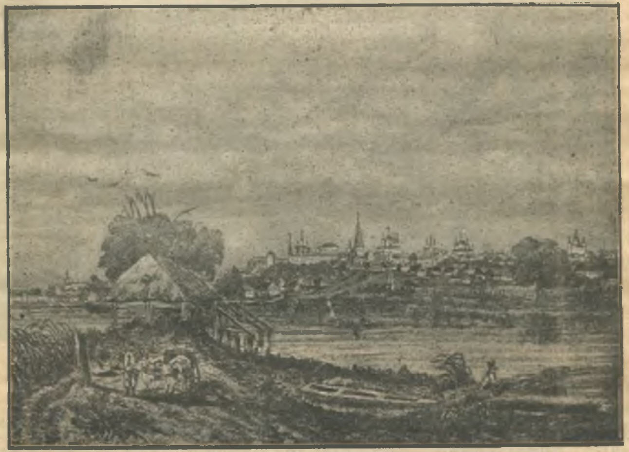 View of the city of Kharkiv from the river Netecha. The beginning of the ХІХ century. Illustration from the book "The History of Sloboda Ukraine", 1918.